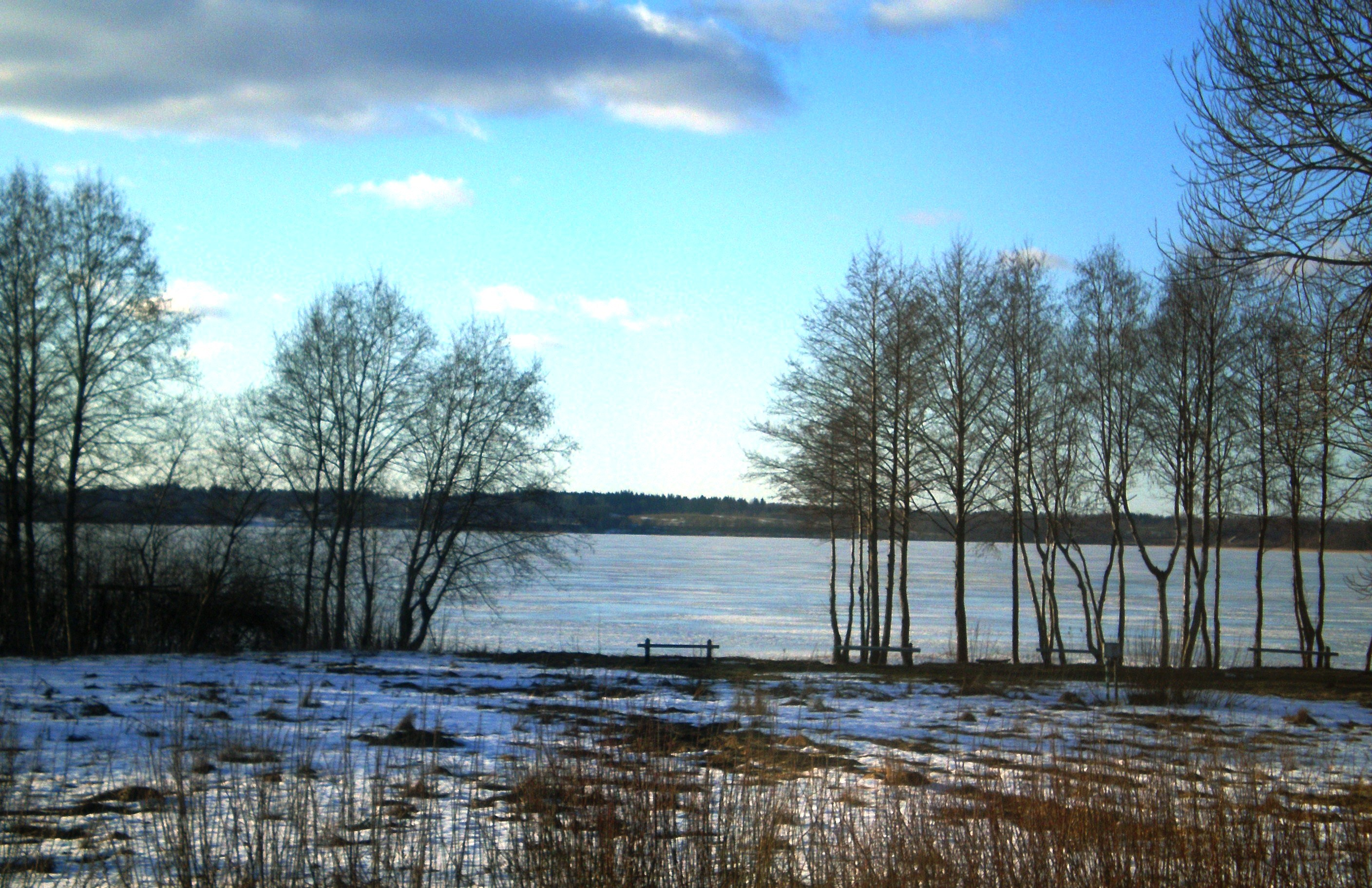 Lūkstas Lake, Telšiai district, Lithuania